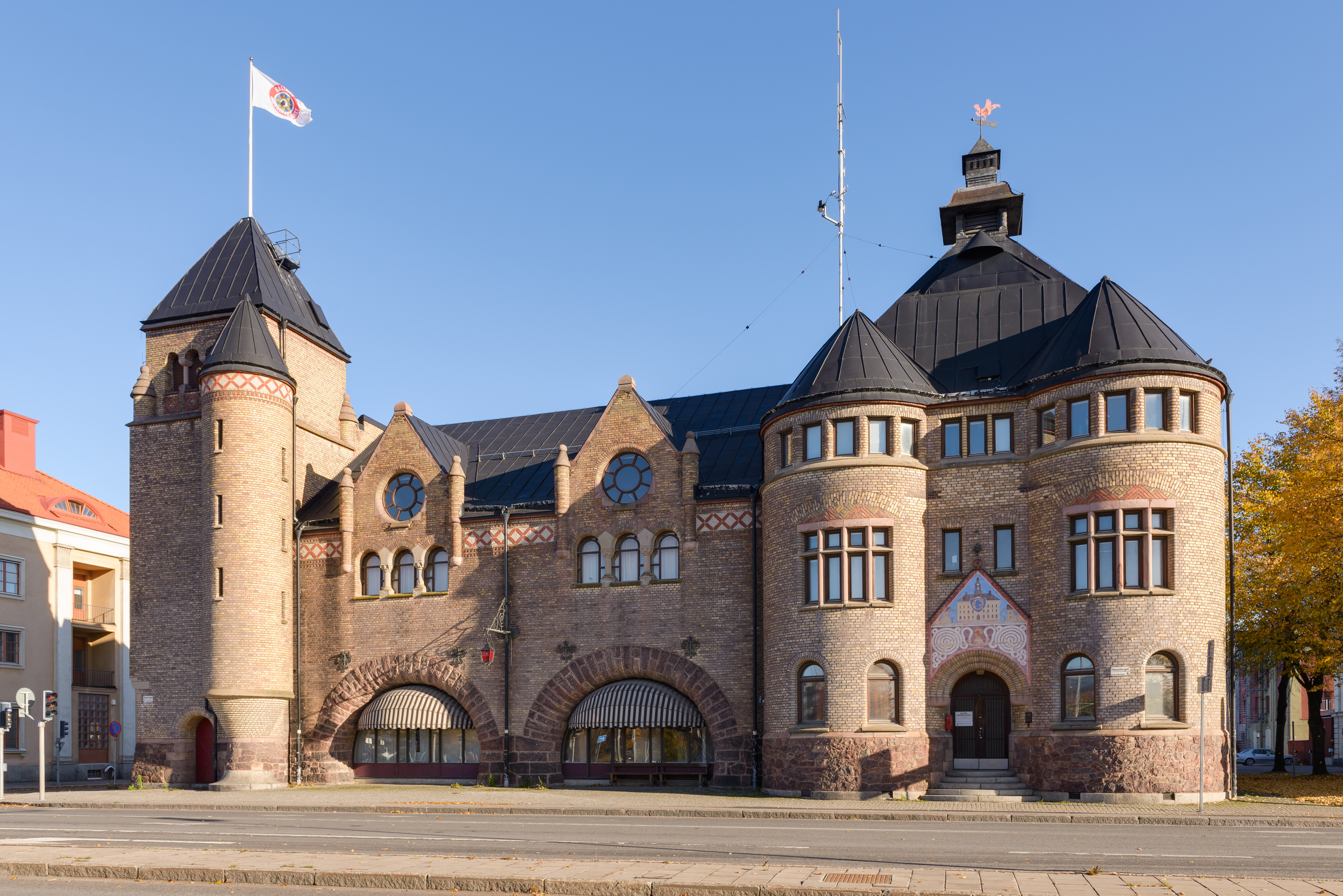 Gävle brandstation (fire station).